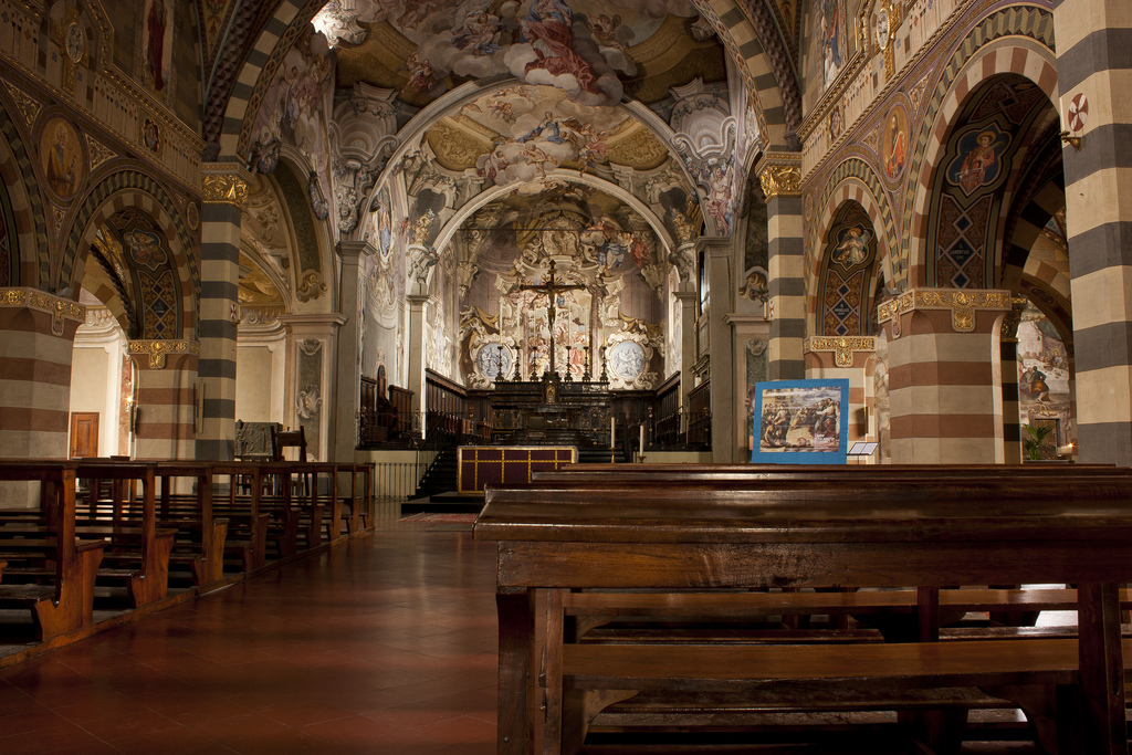 Bobbio Cathedral: built in 1075, is the main religious edifice of the city. It has two majestic towers, which are original in the lower parts. The façade is from 1463 (date in which also a portico was demolished), with three portals in Gothic style. The cathedral presents modern decoration in the three naves and an eighteenth century decoration in the presbytery and on the transept dome. Through the right transept you can reach Saint John chapel where there is a splendid fresco of the second half of the 15th century representing the Annunciation. The crypt houses the sepulchres of the bishops of Bobbio, and the chapel of Saint Antonio Maria Gianelli, bishop of Bobbio.